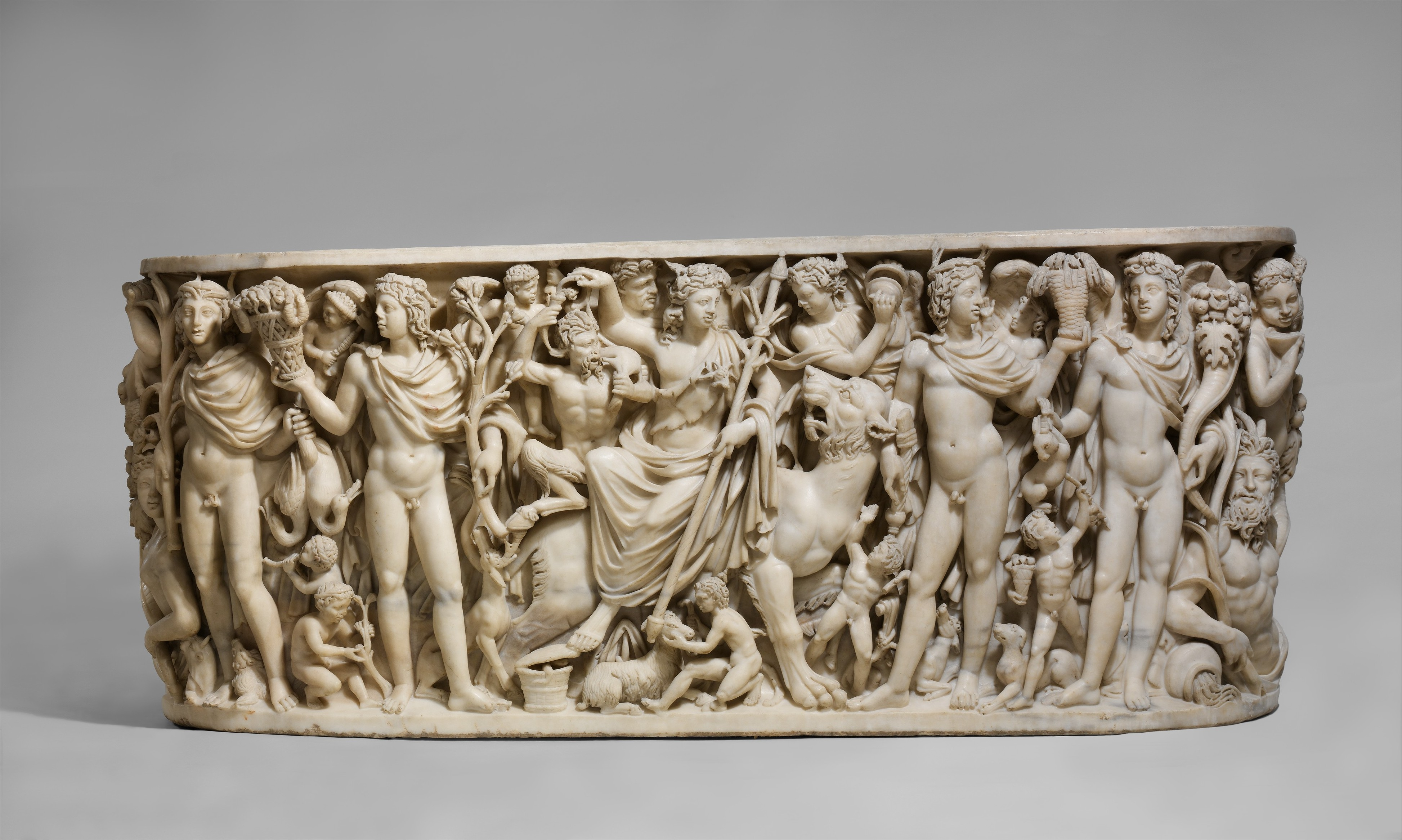 Marble sarcophagus with the Triumph of Dionysos and the Seasons 3rd century CE